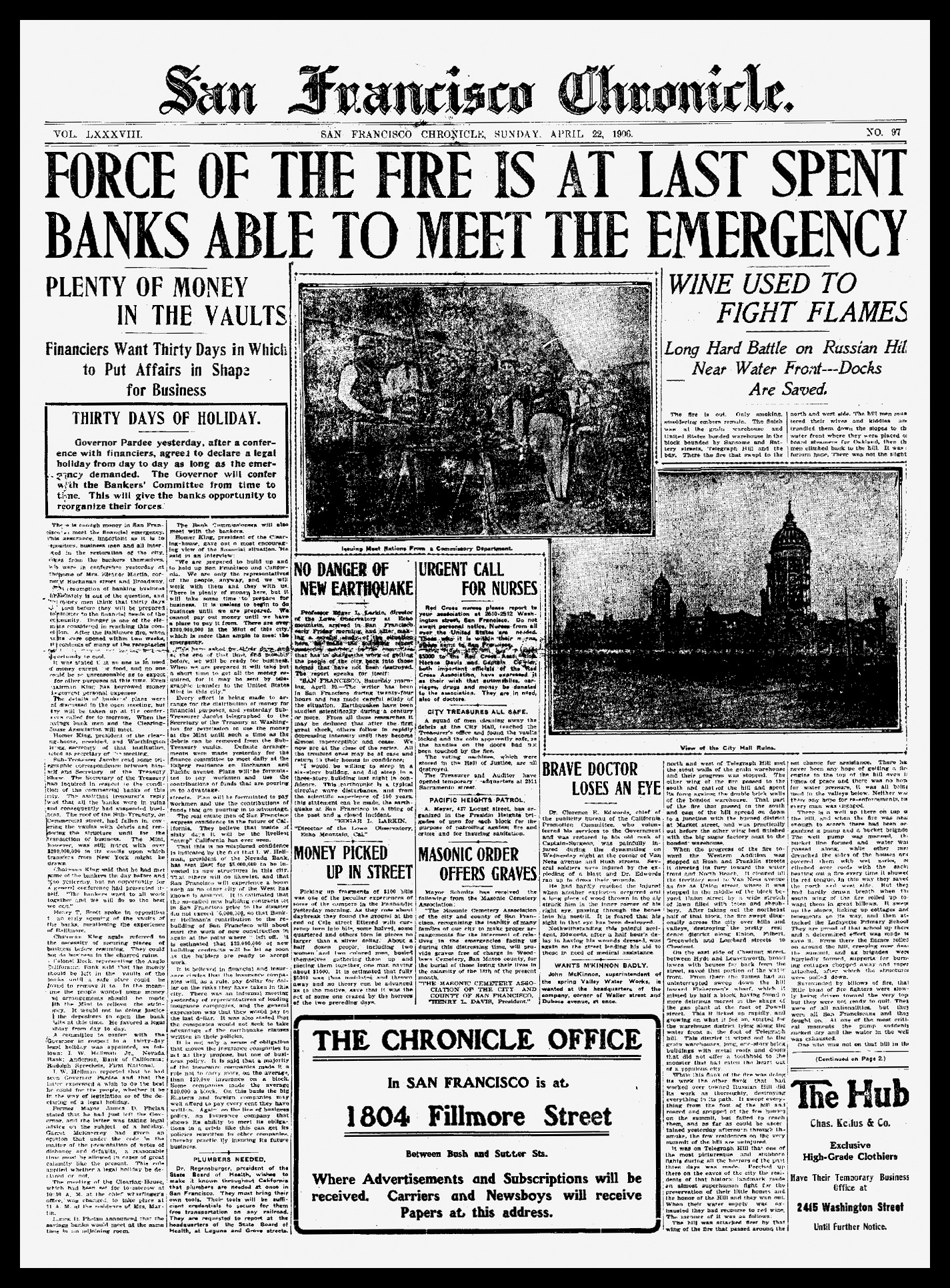 San Francisco Chronicle cover, April 22, 1906 Published in USA prior to 1923, public domain Digital editing by Tim Davenport ("Carrite") for Wikipedia, no copyright claimed, file released to the public domain without restriction.